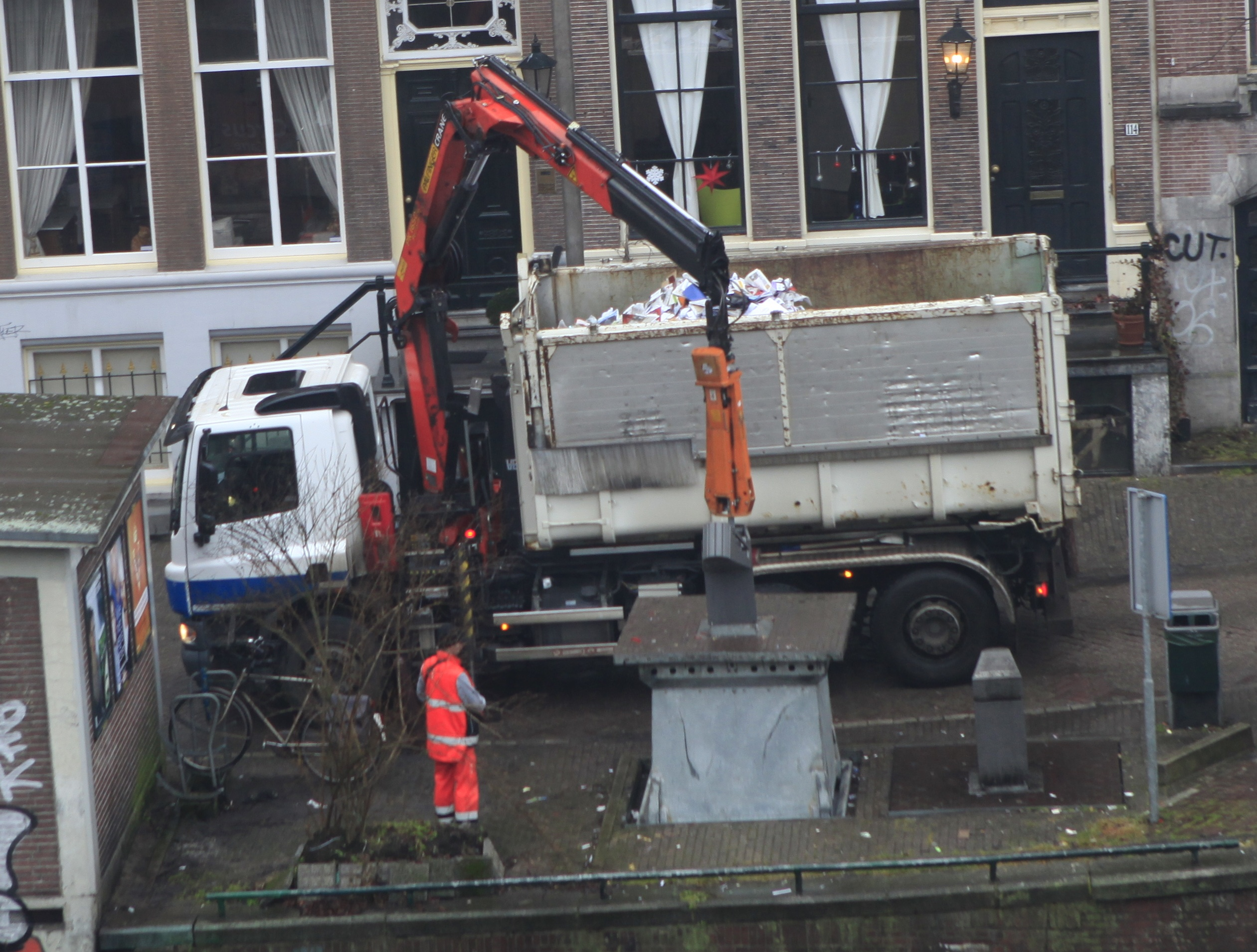 Recycling pickup in Amsterdam alongside the Singel canal.